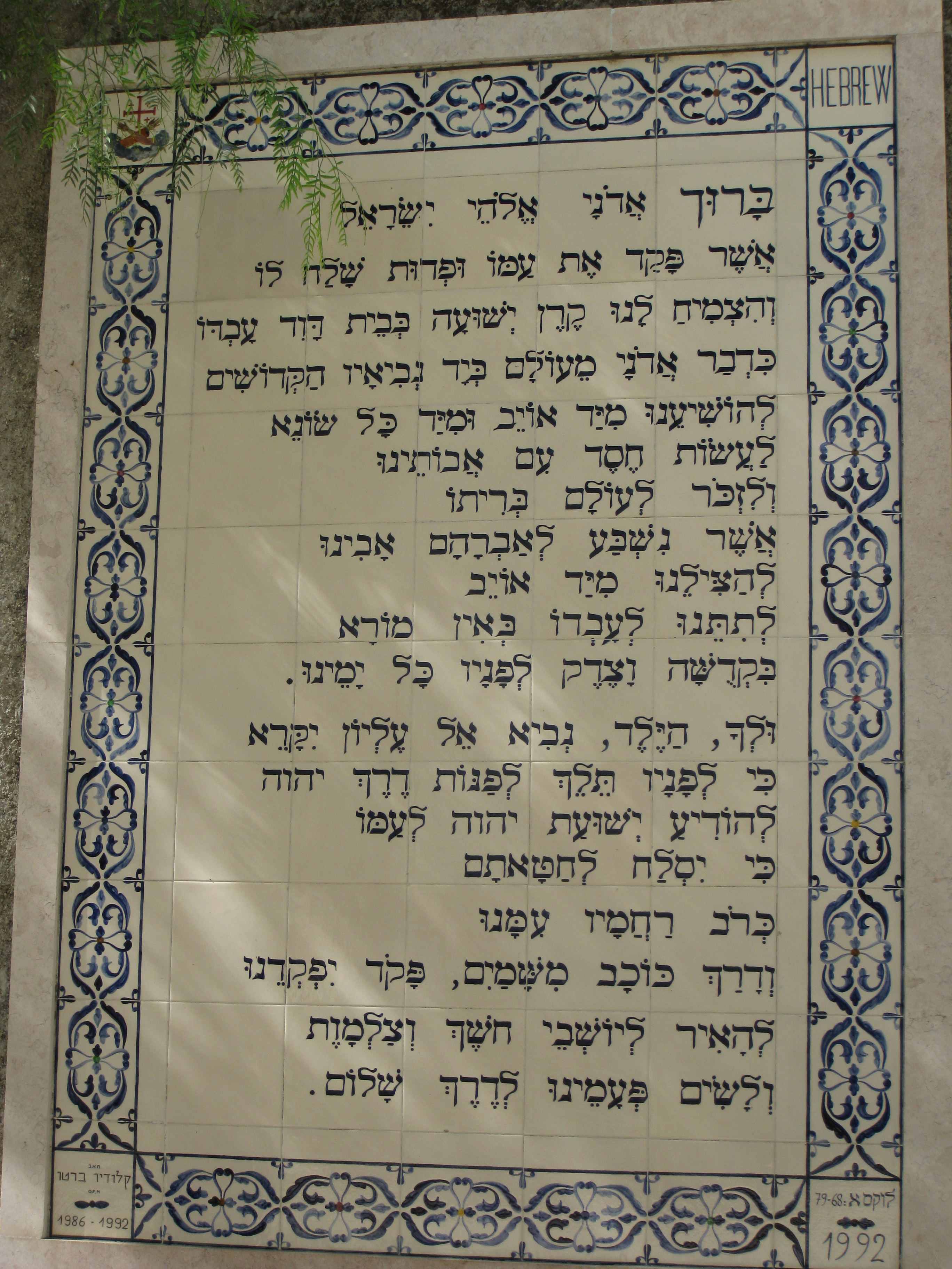 The Benedictus in St. John the Baptist in the Mountains